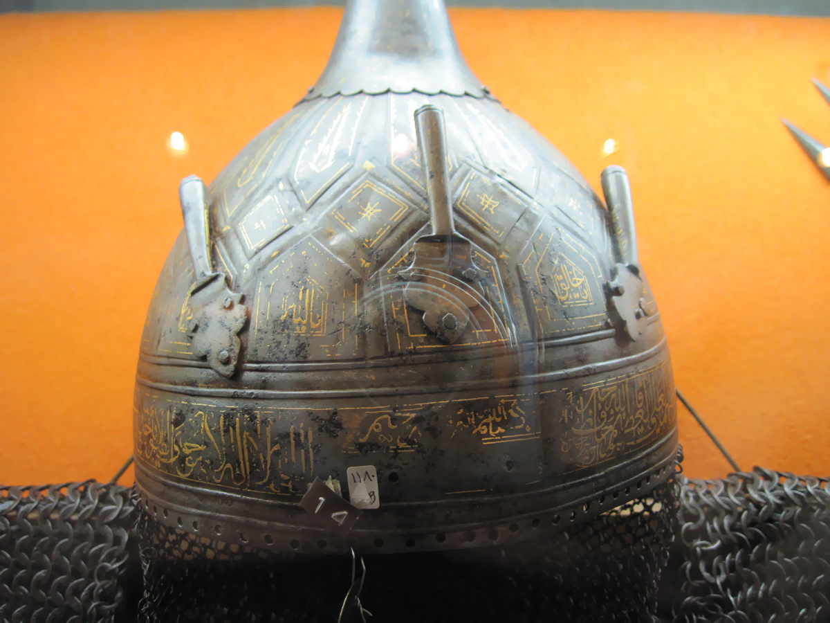 Shah Ismaiil's helmet